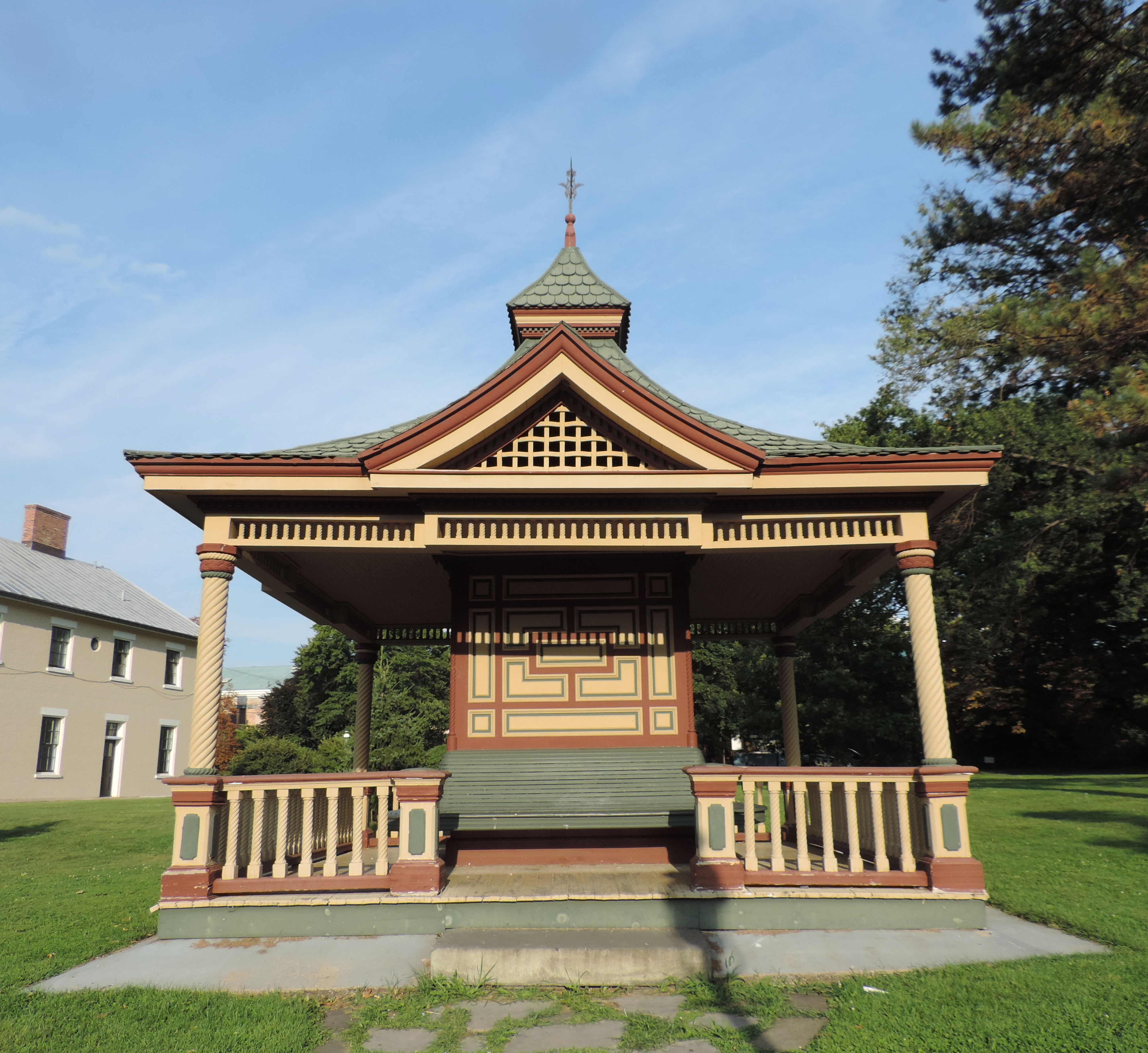 Looking east at gazebo late on a sunny afternoon.